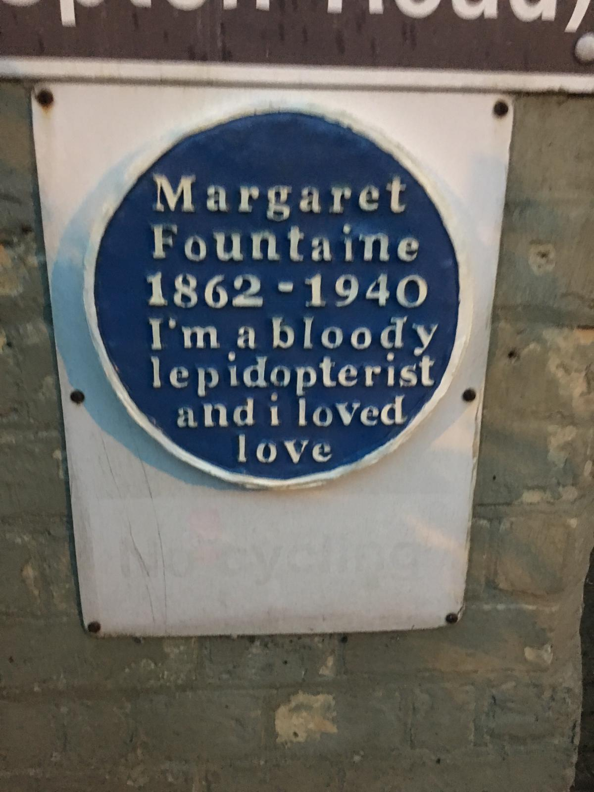 A hand made plaque to commemorate one of thenworld’s Finest lepidopterists and a hugely talented woman whose story needs telling